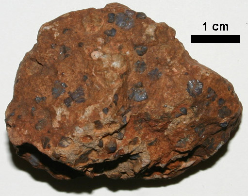 Llanite from the dike on Texas State Highway 16. Collected 1998.